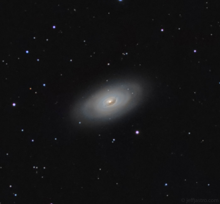 M64 ("Black Eye Galaxy") imaged using amateur telescope.